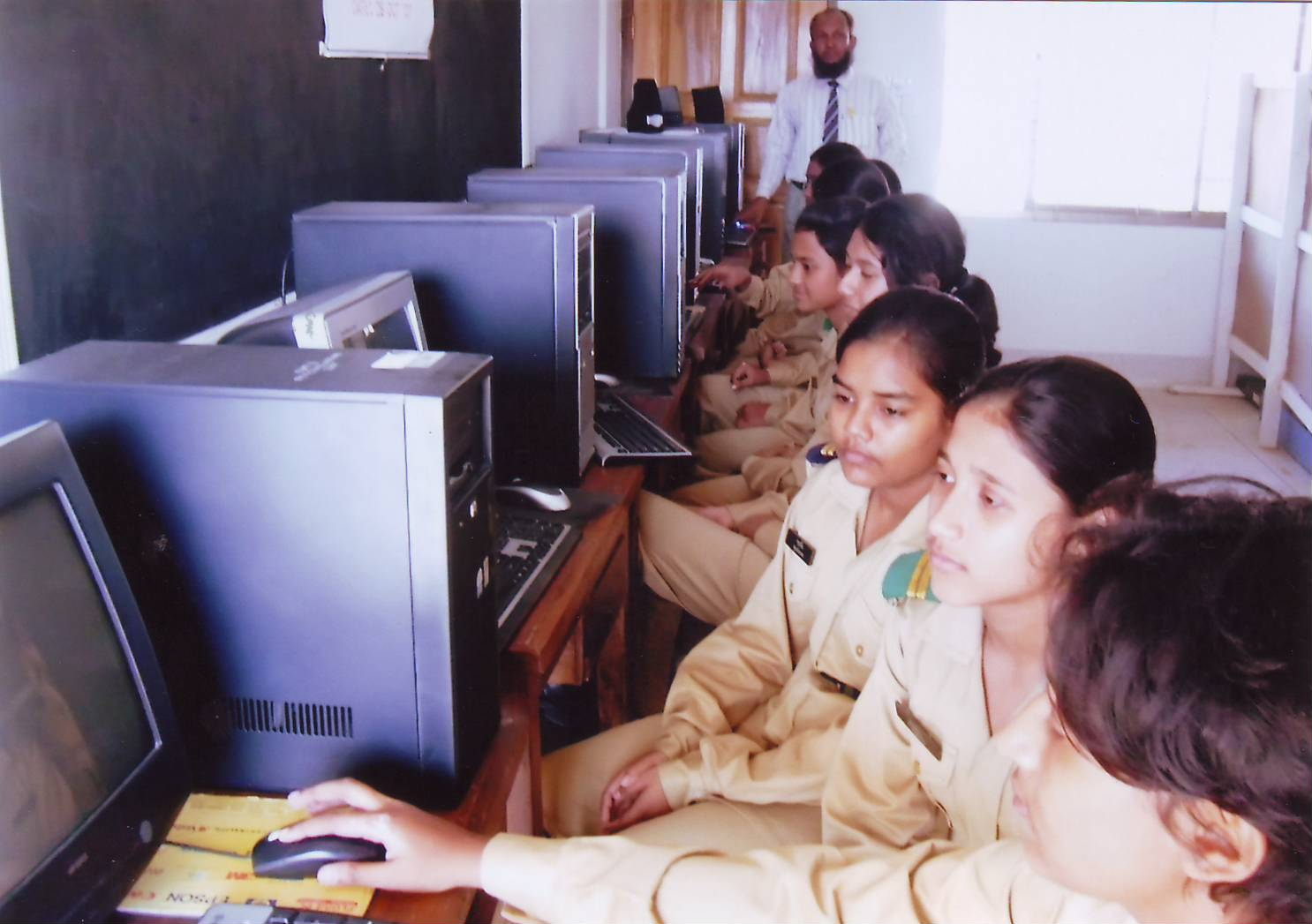 Cadets at computer lab in Feni Girls Cadet College, Bangladesh.